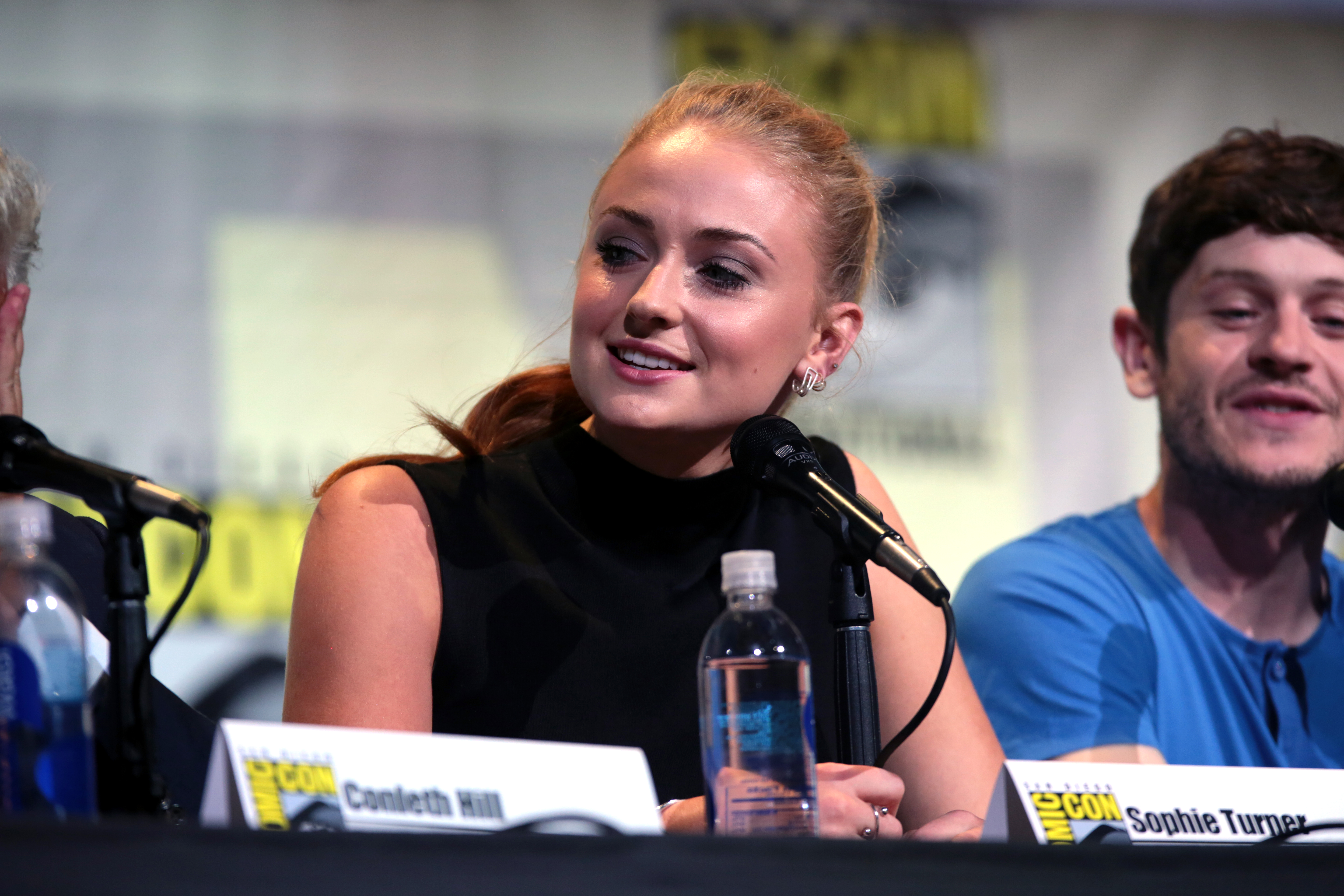 Sophie Turner speaking at the 2016 San Diego Comic Con International, for "Game of Thrones", at the San Diego Convention Center in San Diego, California.